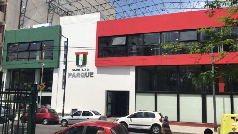 Club parque